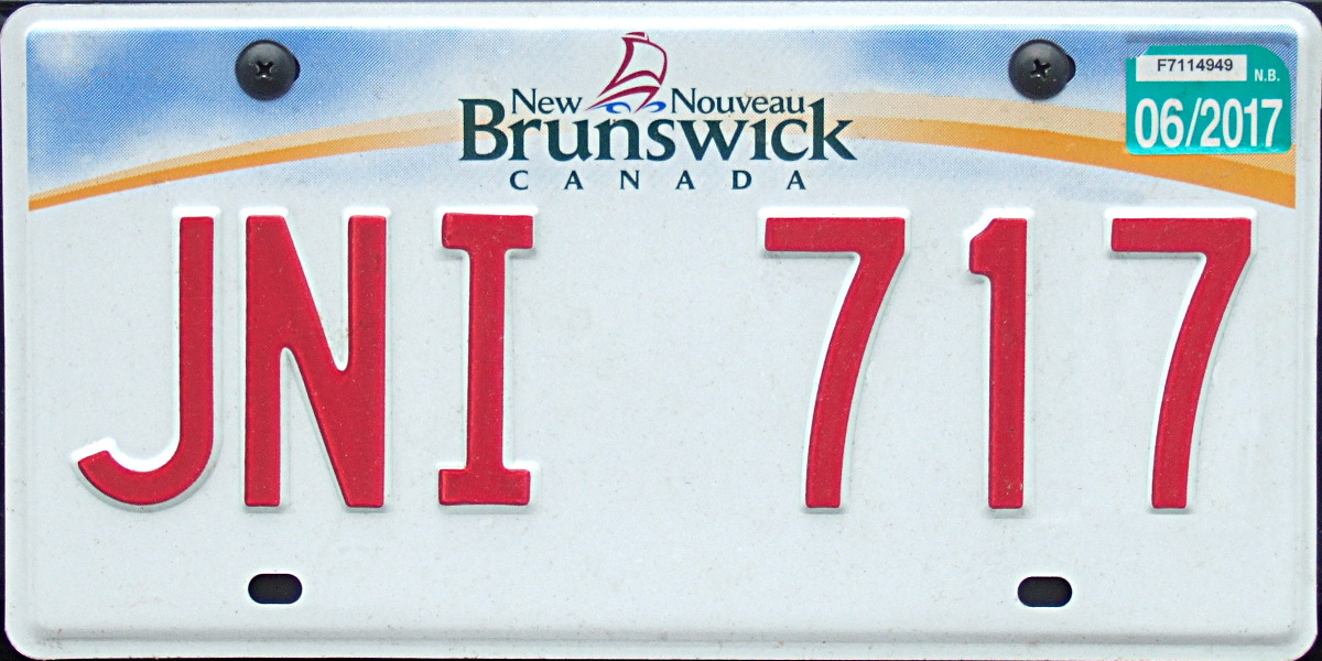 2016 New Brunswick license plate, private passenger car